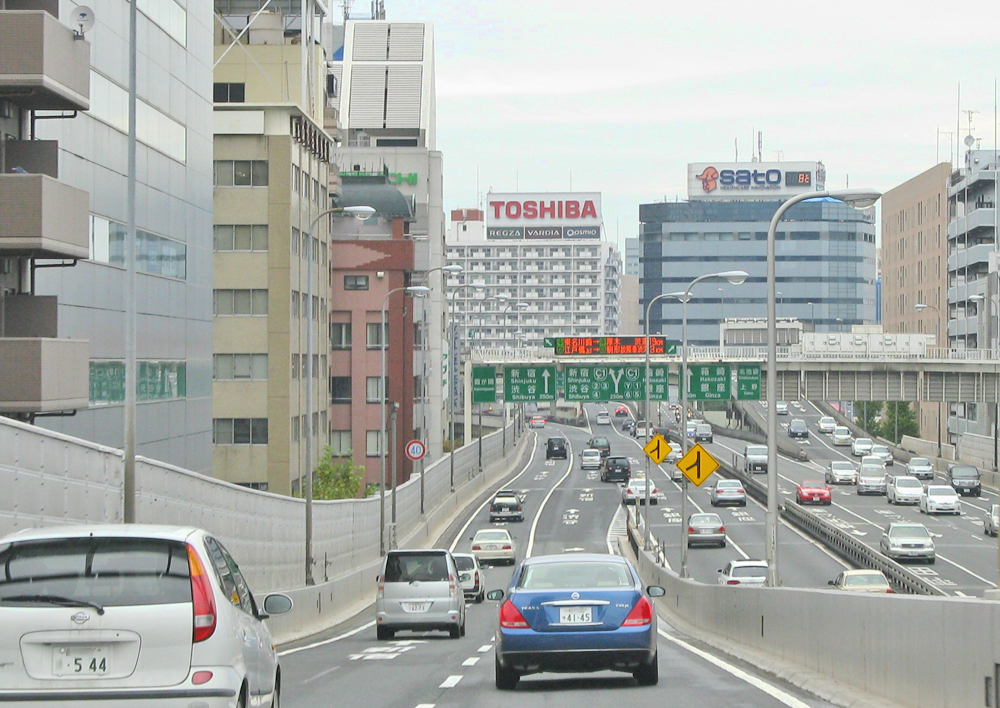 I took this photo.